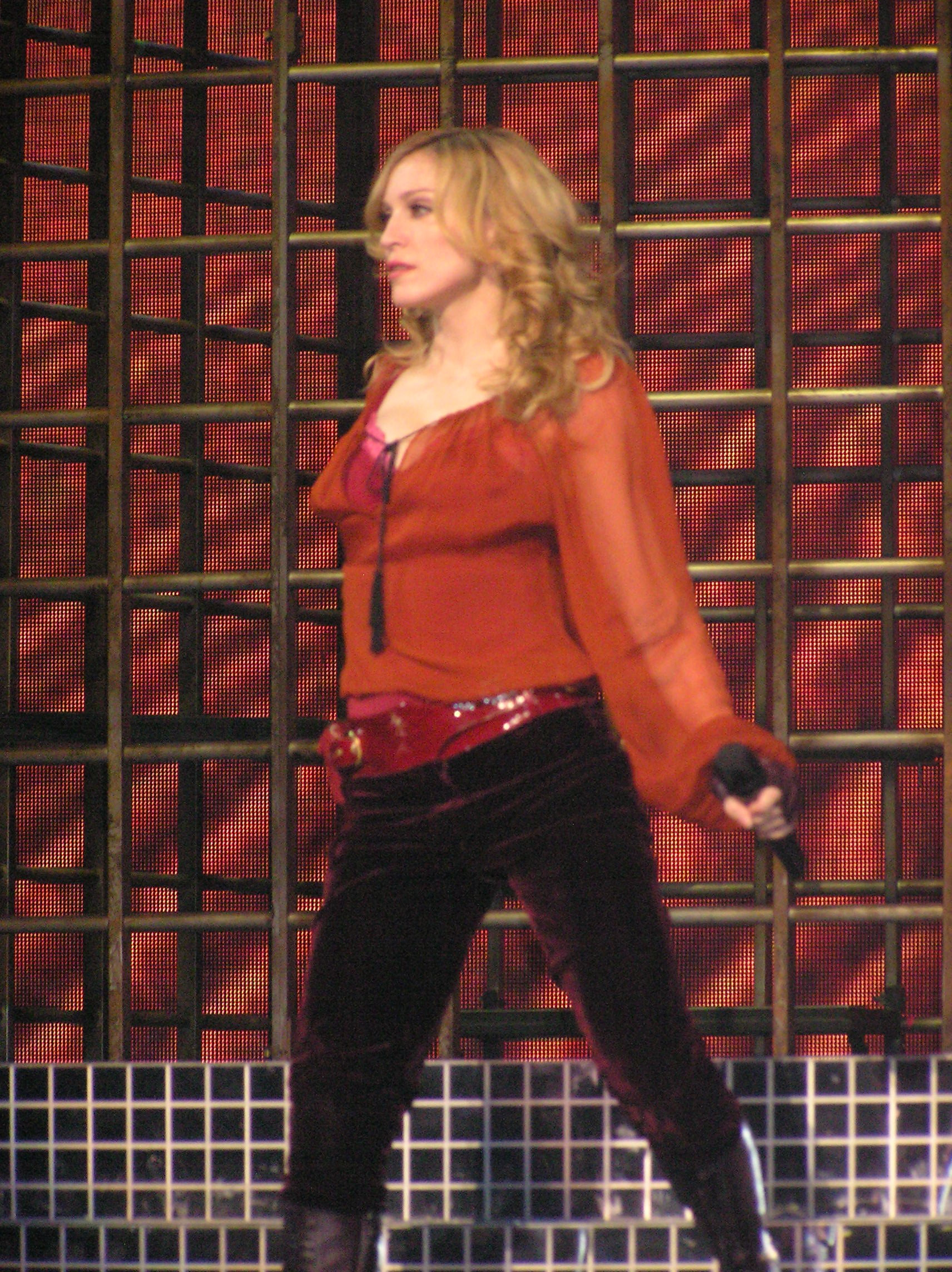 Madonna concert in Fresno